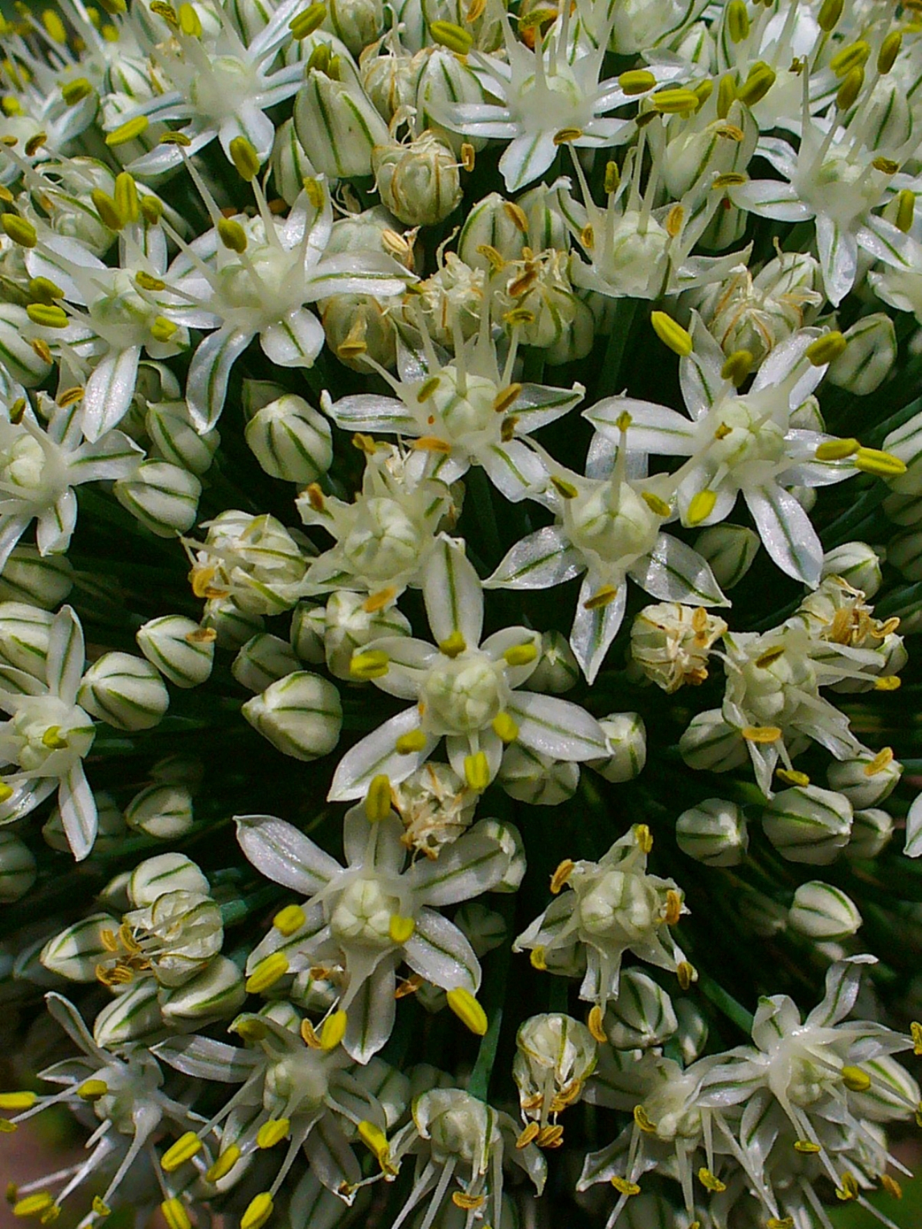 Allium cepa, Alliaceae, Garden Onion, flowers. Karlsruhe, Germany. The fresh bulbs are used in homeopathy as remedy: Allium cepa (All-c.)